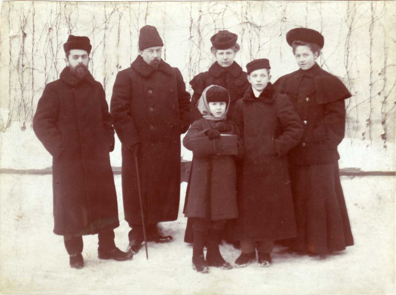 Professor Vladimir Mikhailovich Chaplin (second from left) with his family and his pupil Kostya Melnikov (second from the right). The far right is the daughter of V. Chaplin, the future mother of the writer Vera Chaplina. Moscow, 1904.